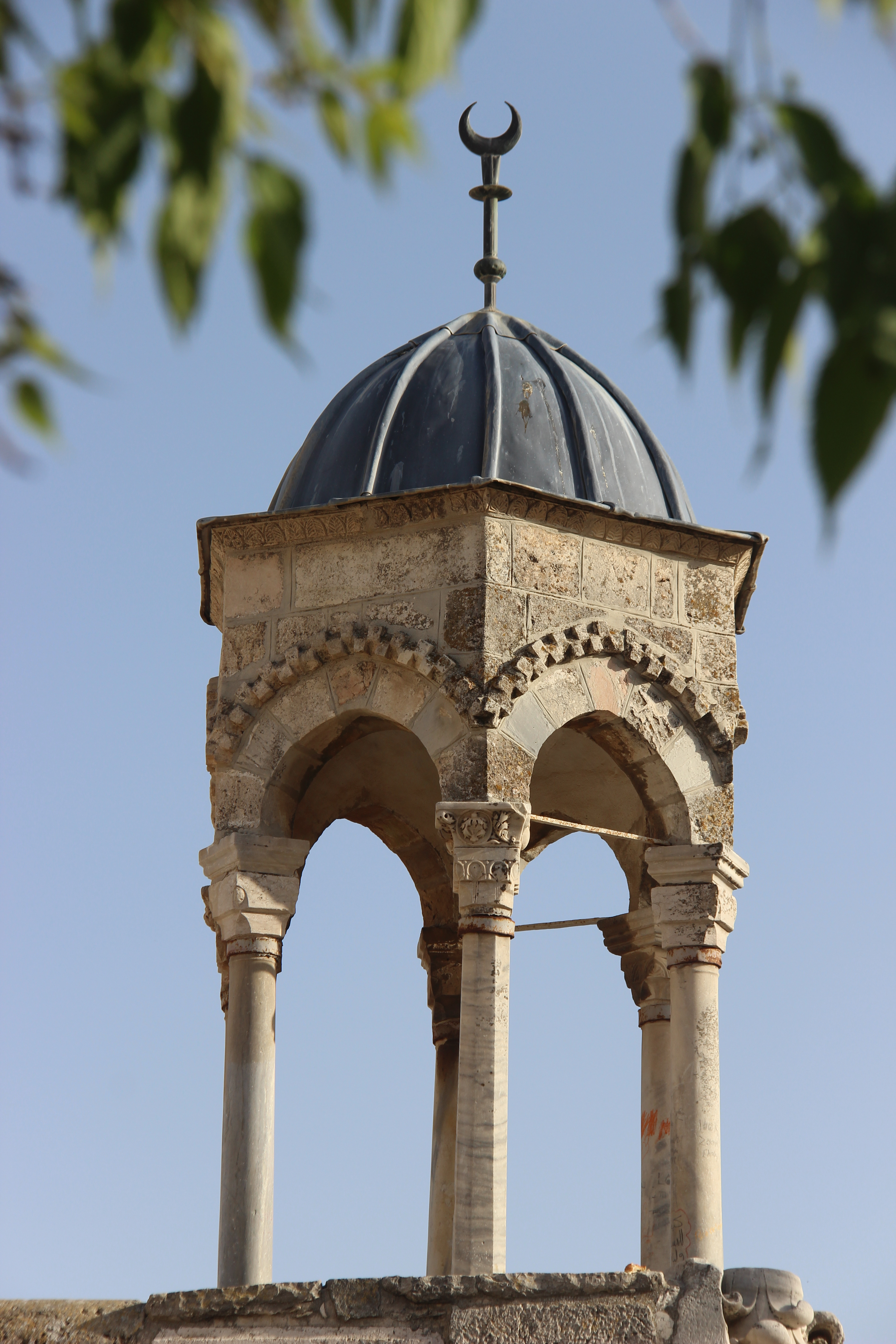 The Dome of al-Khadr in Al-Aqsa Mosque.